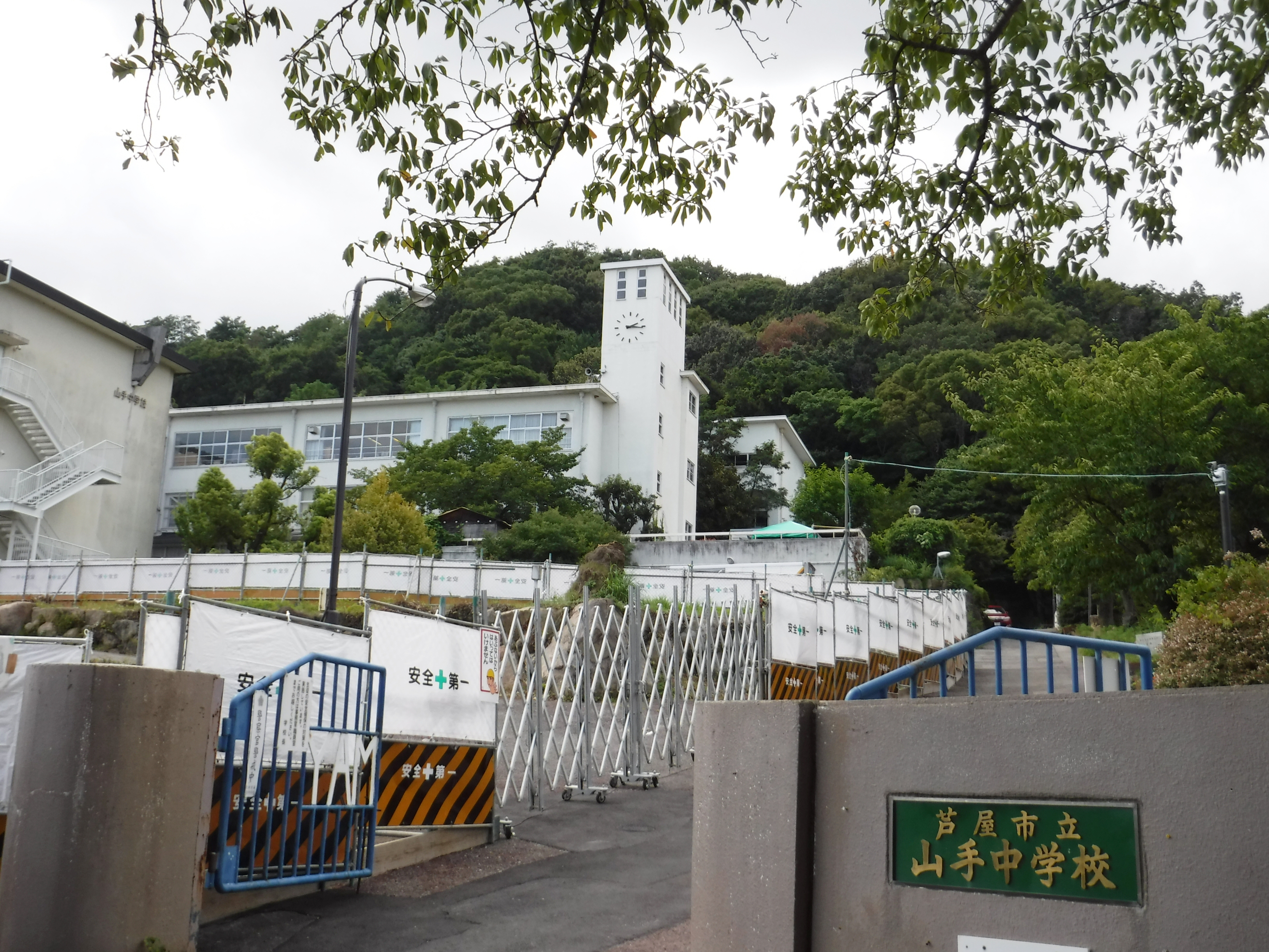 Ashiya City Yamate Junior High School before reconstruction (2017-), viewed from the former main entrance, located in Ashiya, Hyogo, Japan.